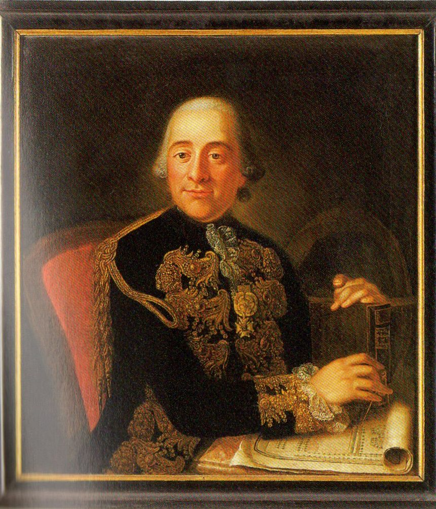 Christoph Dionysius Seeger